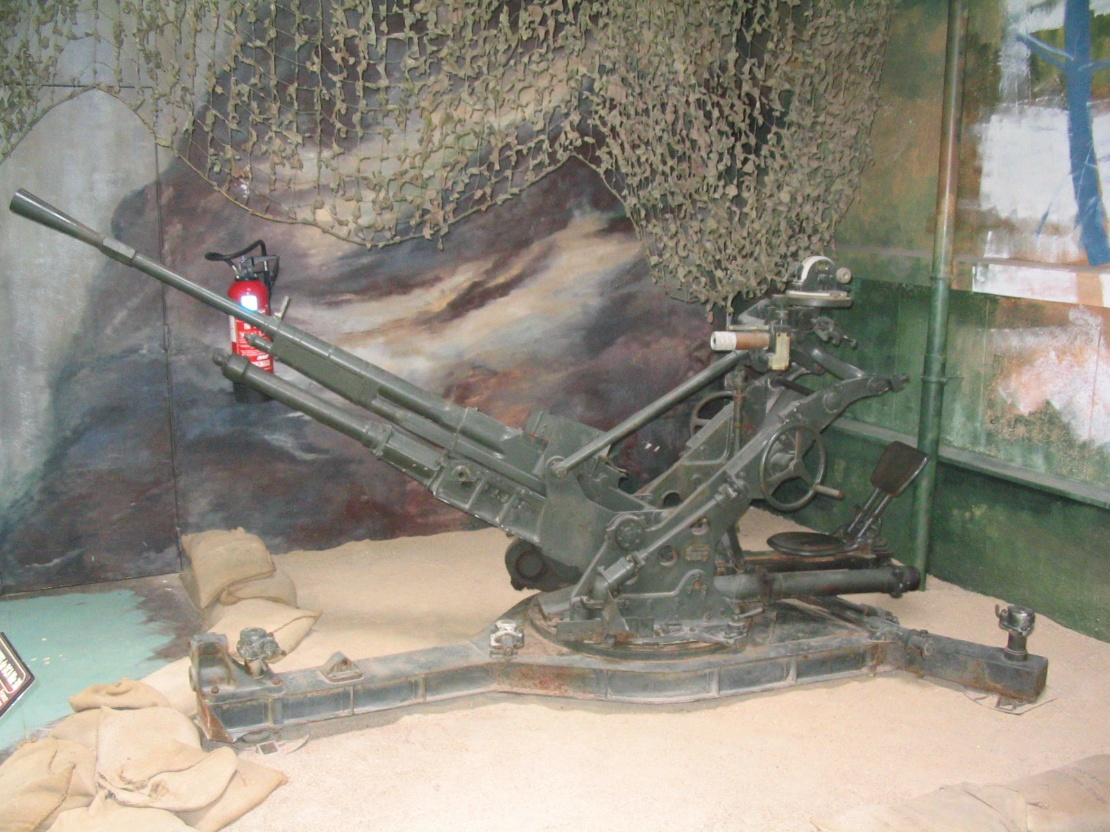 The 25 mm CA mle 1939 Hotchkiss anti-aircraft gun at Saumur armour museum